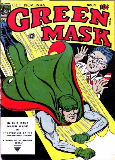 Cover to Green Mask #17 (Oct-Nov 1946), published by Fox Feature Syndicate.